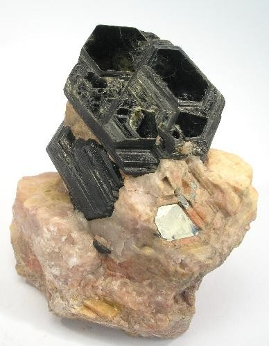 Biotite, Orthoclase Locality: Erongo Mountain, Usakos and Omaruru Districts, Erongo Region, Namibia (Locality at ) Size: 7.8 x 6.4 x 3.2 cm. This beautiful 4 cm Biotite crystal is striking, and the Orthoclase it sits on complements it nicely. A fine combination. Ex. Charlie Key Collection.